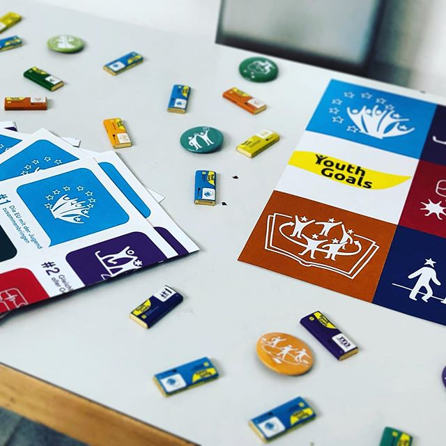 Advertisment material to the European Youth Goals in Austria